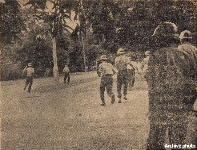 Riot polices with baton crack down brutally on peaceful demonstrators.